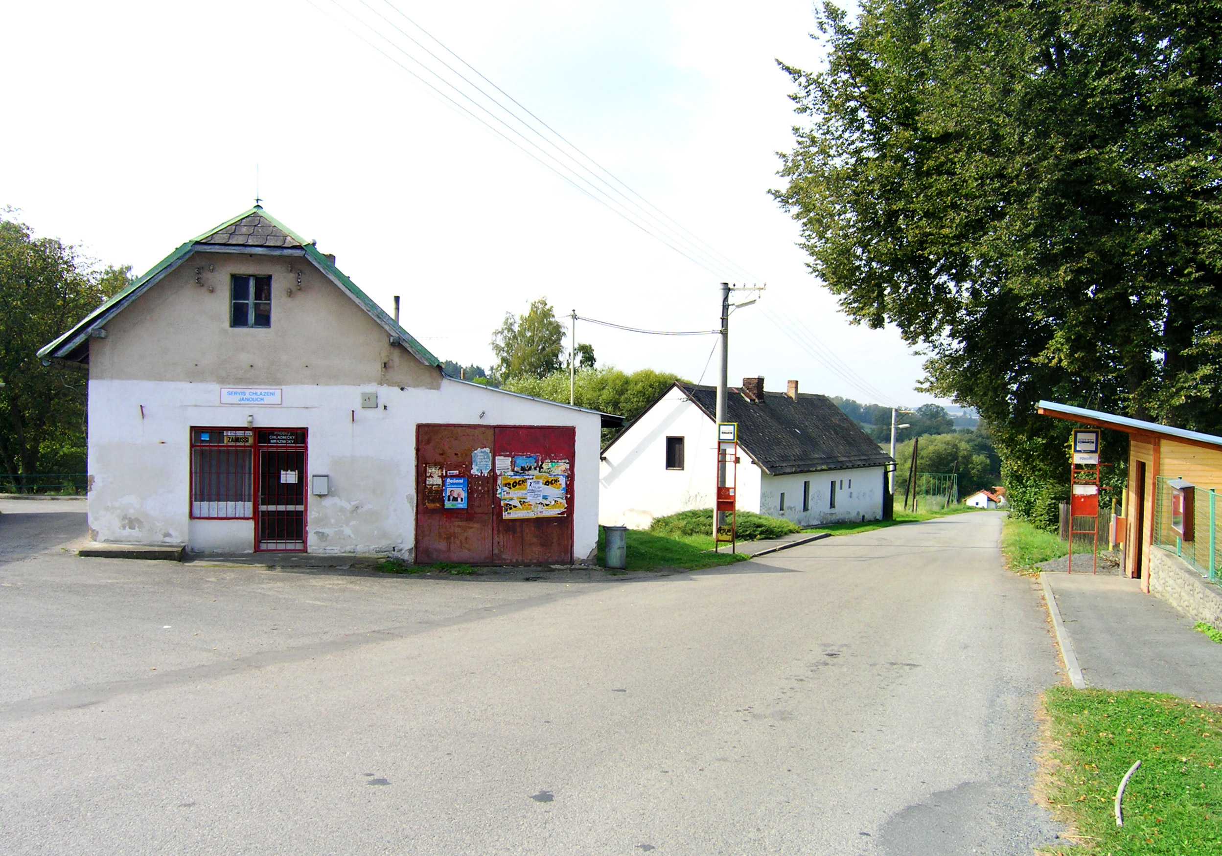 Pohoří village, Czech Republic